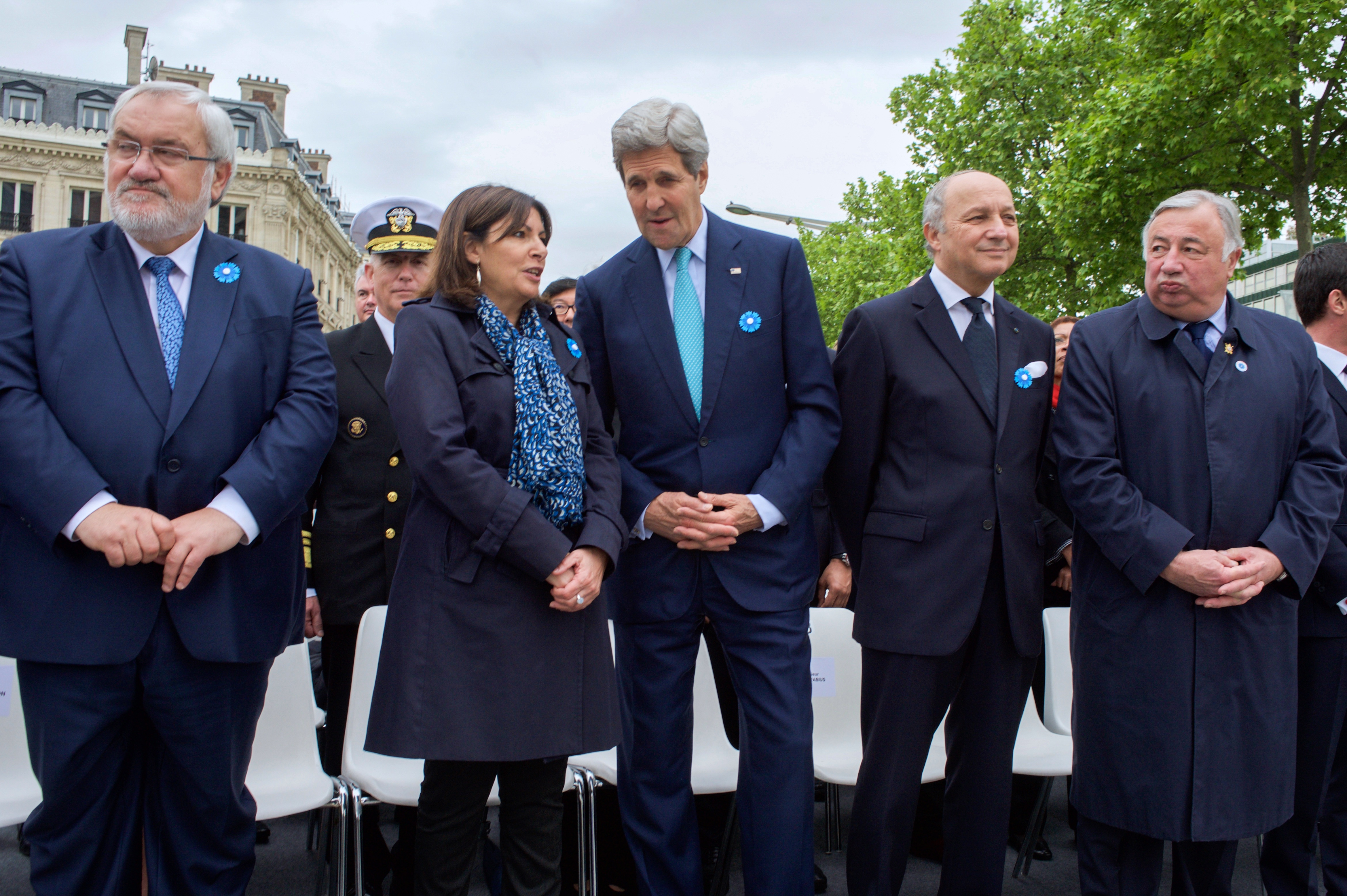 U.S. Secretary of State John Kerry, flanked by French Foreign Minister Laurent Fabius, speaks with Paris Mayor Anne Hidalgo after a seventieth anniversary VE Day commemoration on May 8, 2015, at the Arc d'Triomphe and along the Champs Elysee in Paris, France. [State Department photo/ Public Domain]